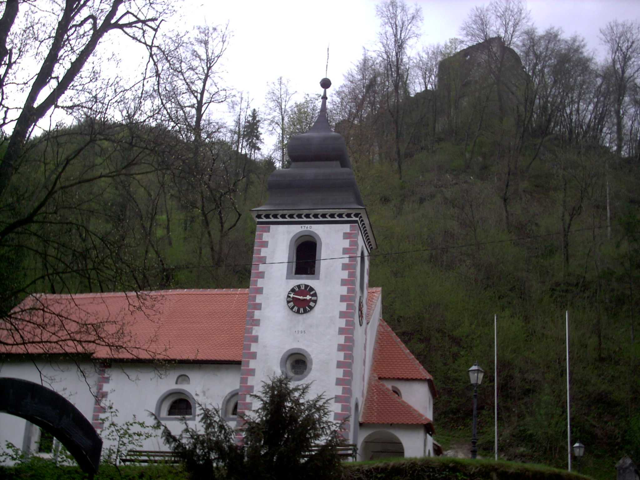 Samobor, Croatia